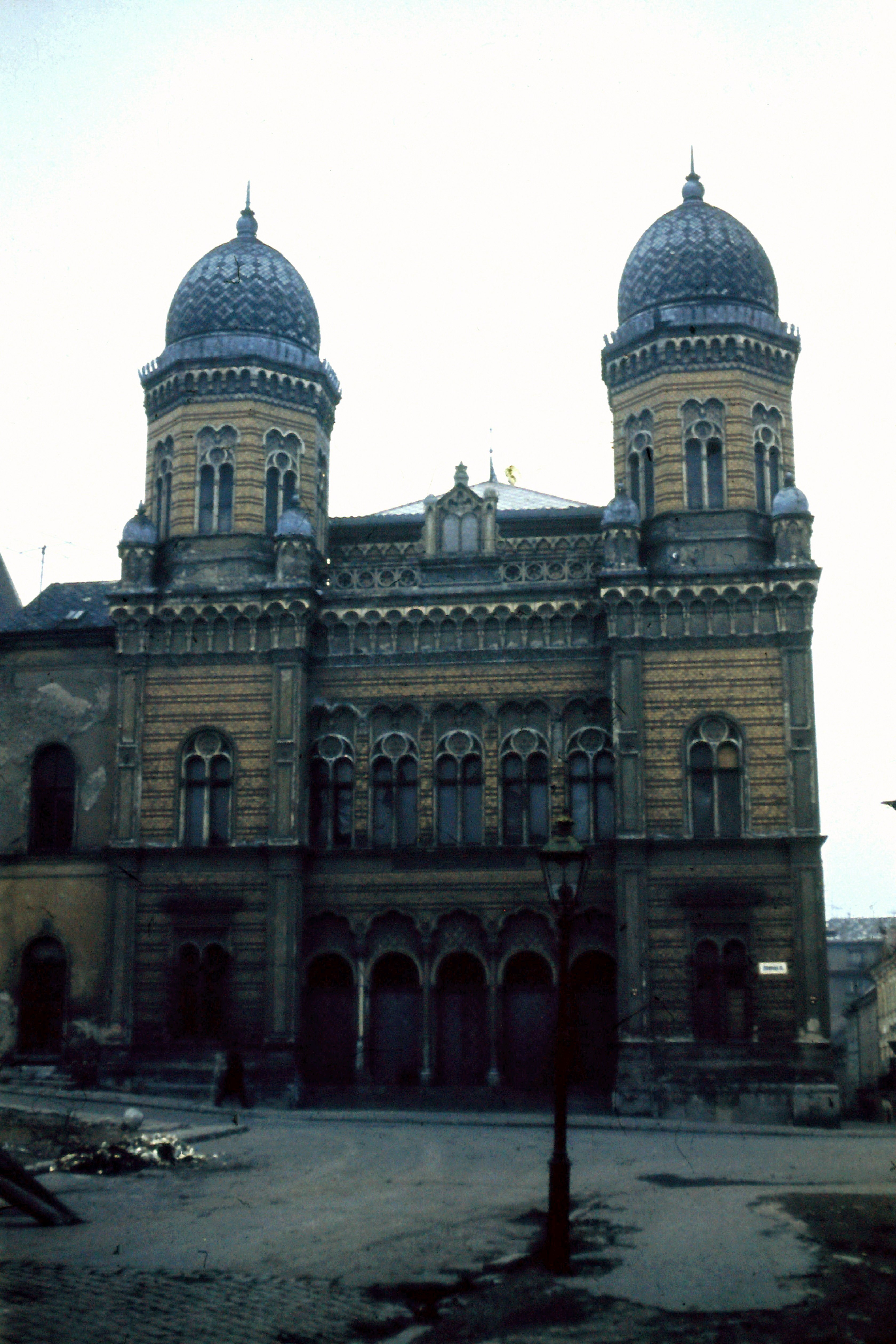 Bratislava synagogue - taken by my mother in the 60s (before 1967)